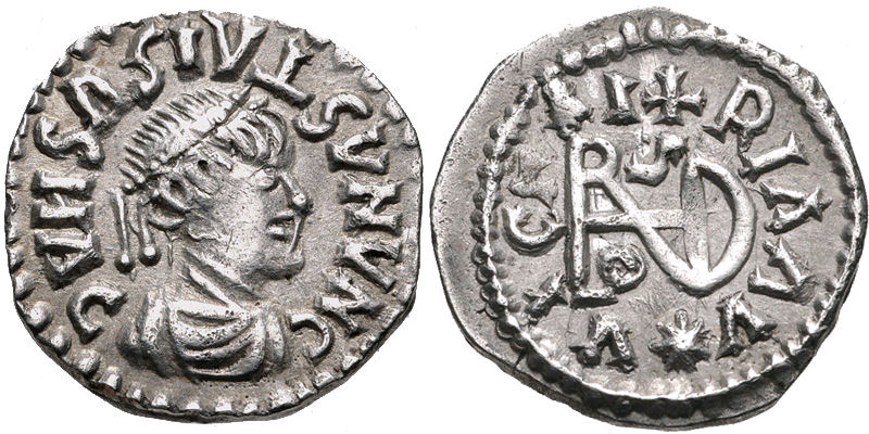 Coin of the Gepids 454-552 Sirmium mint. In the name of Byzantime Emperor Anastasius I 491-517 CE. C N ΛNΛSTΛISVS И AC (first C retrograde, legend read outwardly), pearl-diademed and draped bust right / VICΓI RIΛΛV, large Theodoricus monogram; cross above, star below.